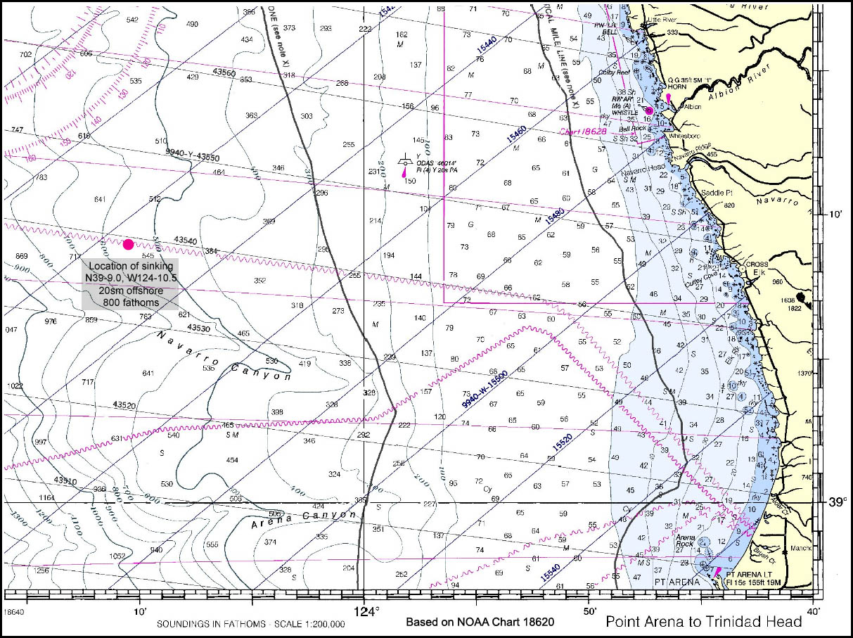 Hastings Tugboat Sinking Location